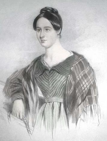 Grace Horsely Darling famed for her part in the rescue of passengers from the wrecked steam packet, Forfarshire at the Farne Islands, Northumberland, England early in the morning of 7th September 1838. Portrait circa 1839. Image recovered from a mid-19th Century print.